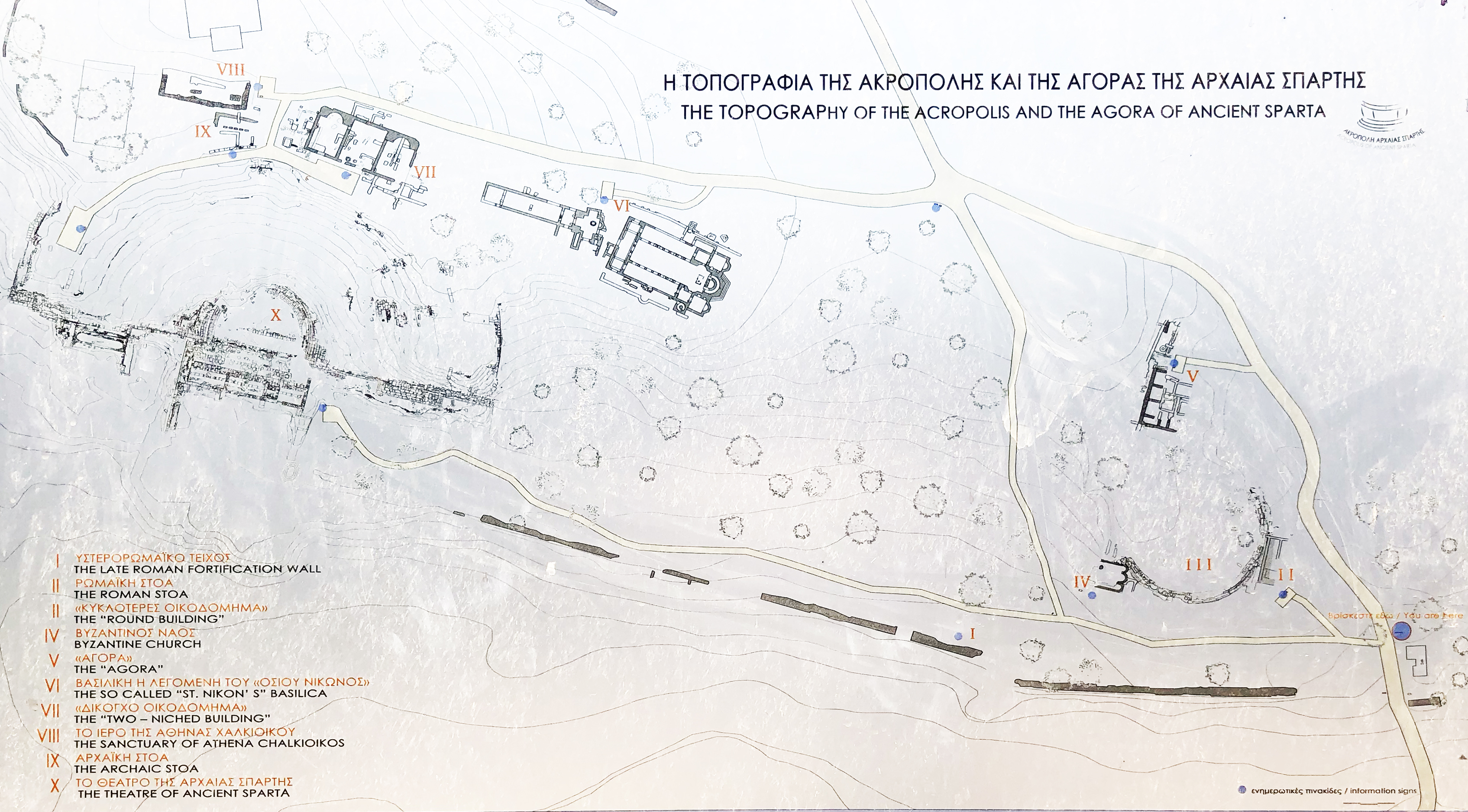 Map of Archaeological site of Sparta